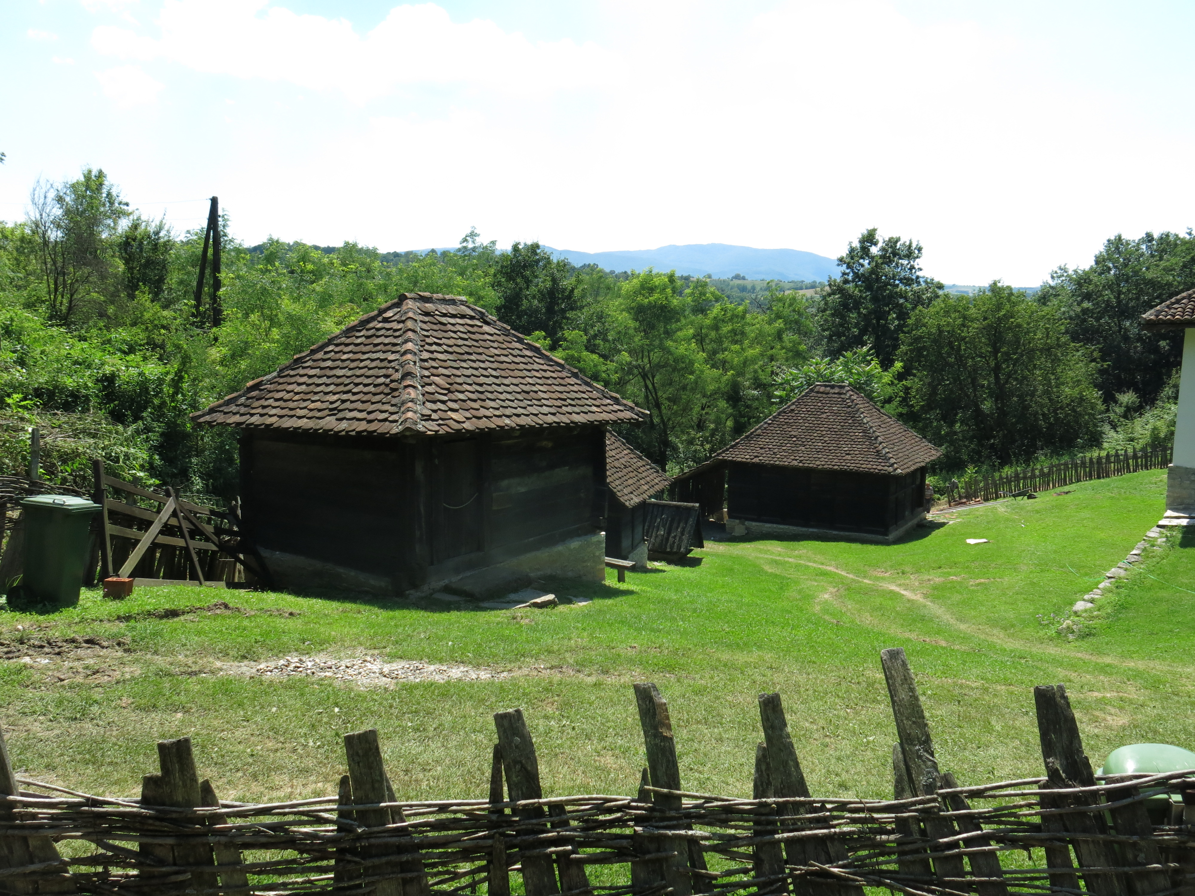 Struganik, Birth house of Živojin Mišić